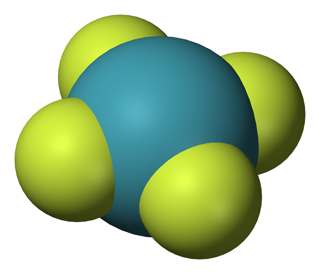 Structure of Xenon tetraflouride, one of the first noble gas compounds to be discovered.